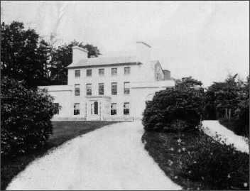 Dolaucothi mansion (Pre 1871).